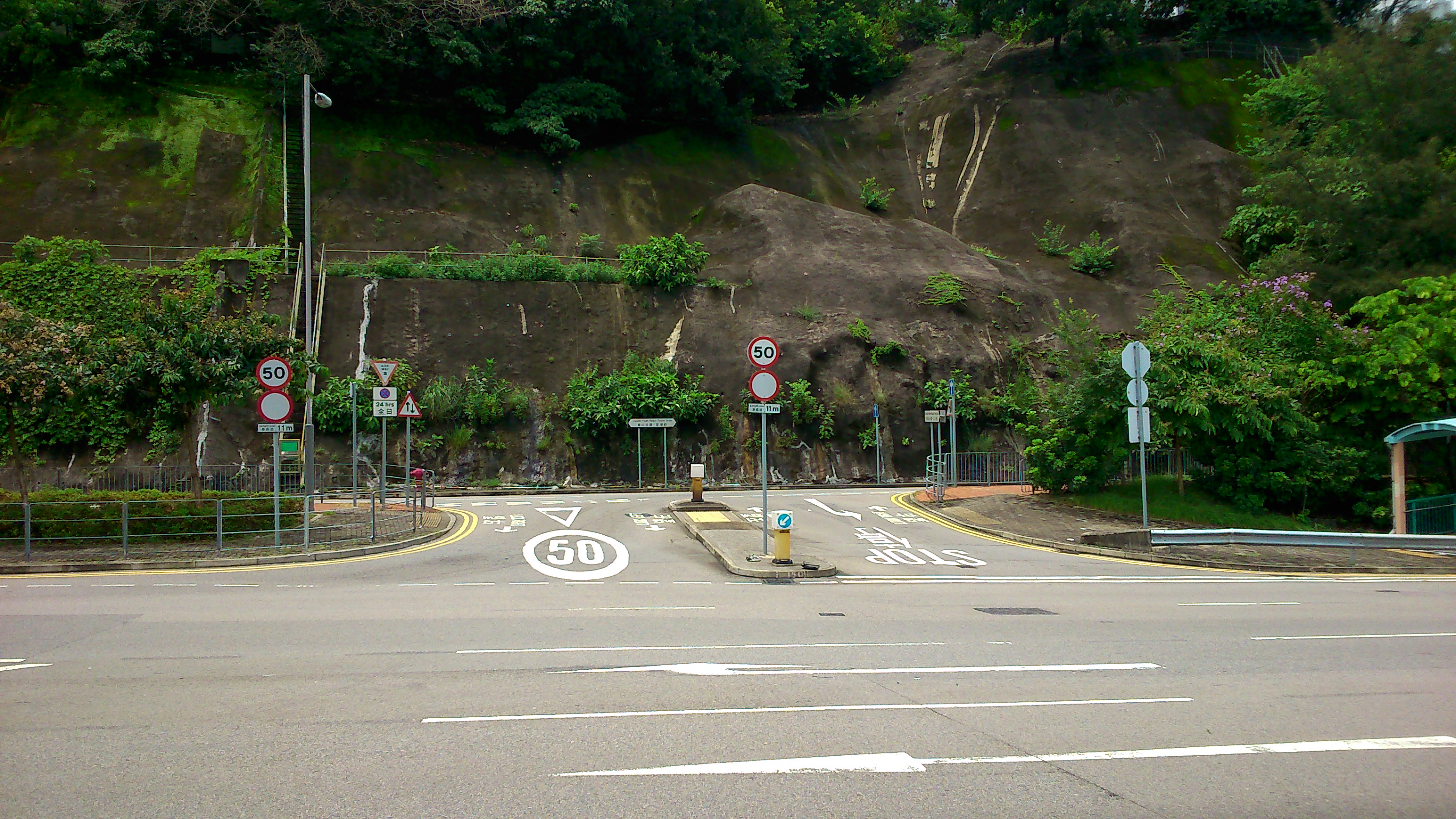 Castle Peak Road Ting Kau section starts, opposite to Castle Peak Road Tsuen Wan section ends, and next to Hoi On Road